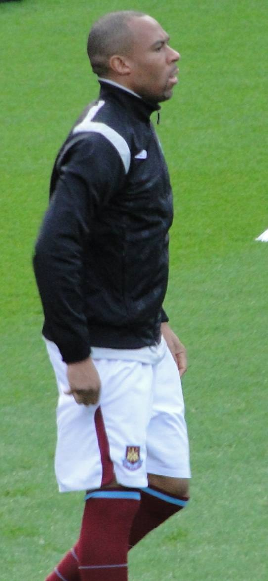 West Ham's Danny Gabbidon warming-up before their game against Burnley, November 2009.